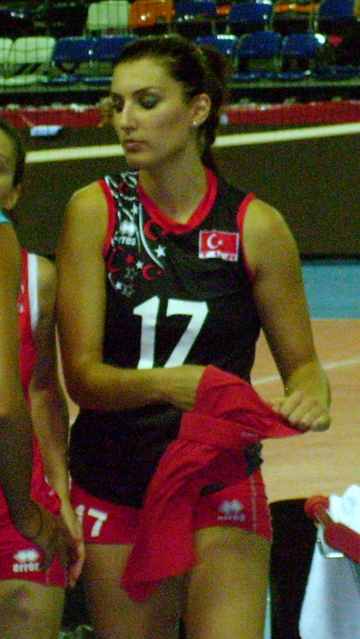 Turkish volleyball player Neslihan Darnel